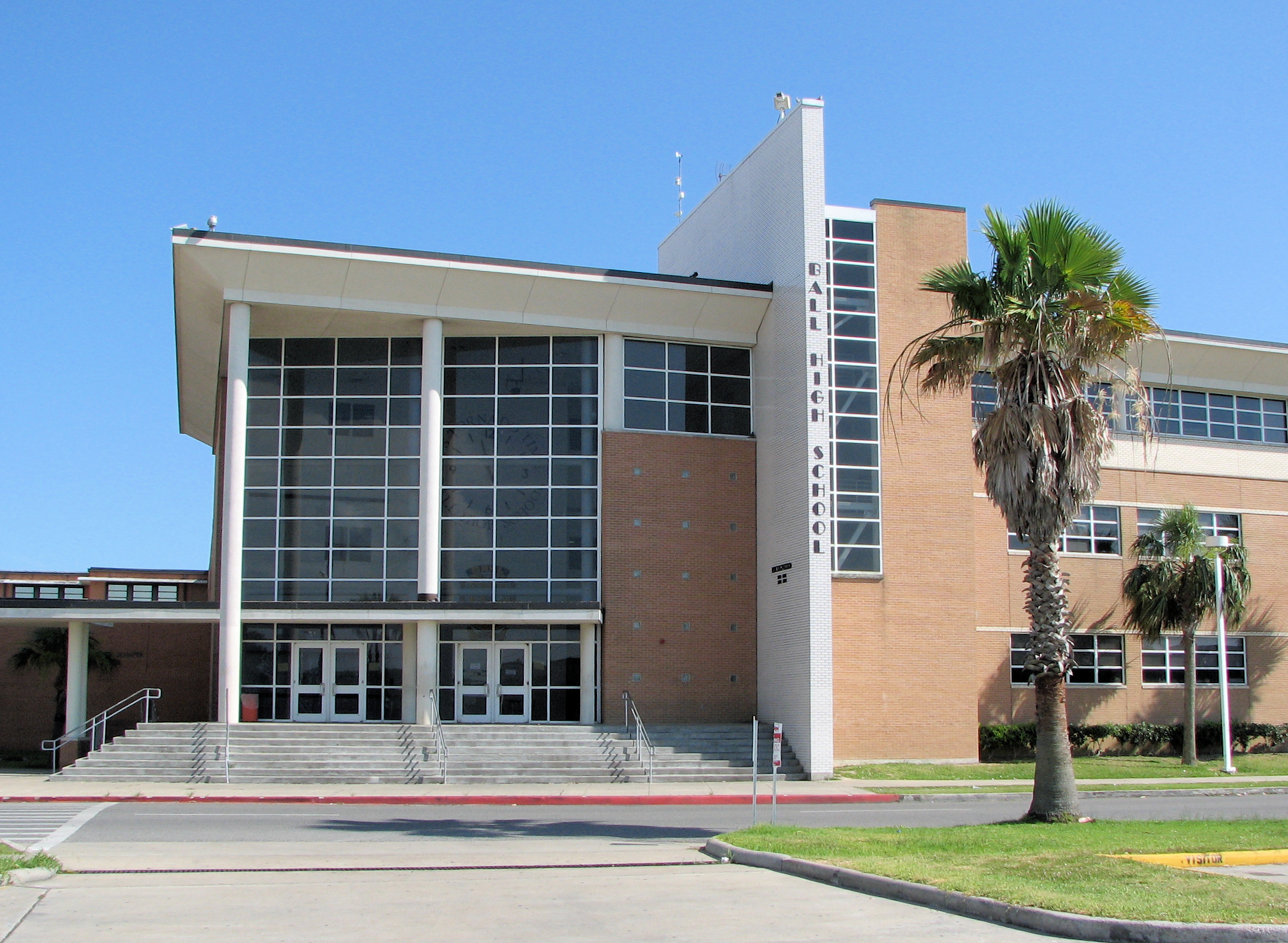 Close up of entrance of Ball High School in Galveston, Texas